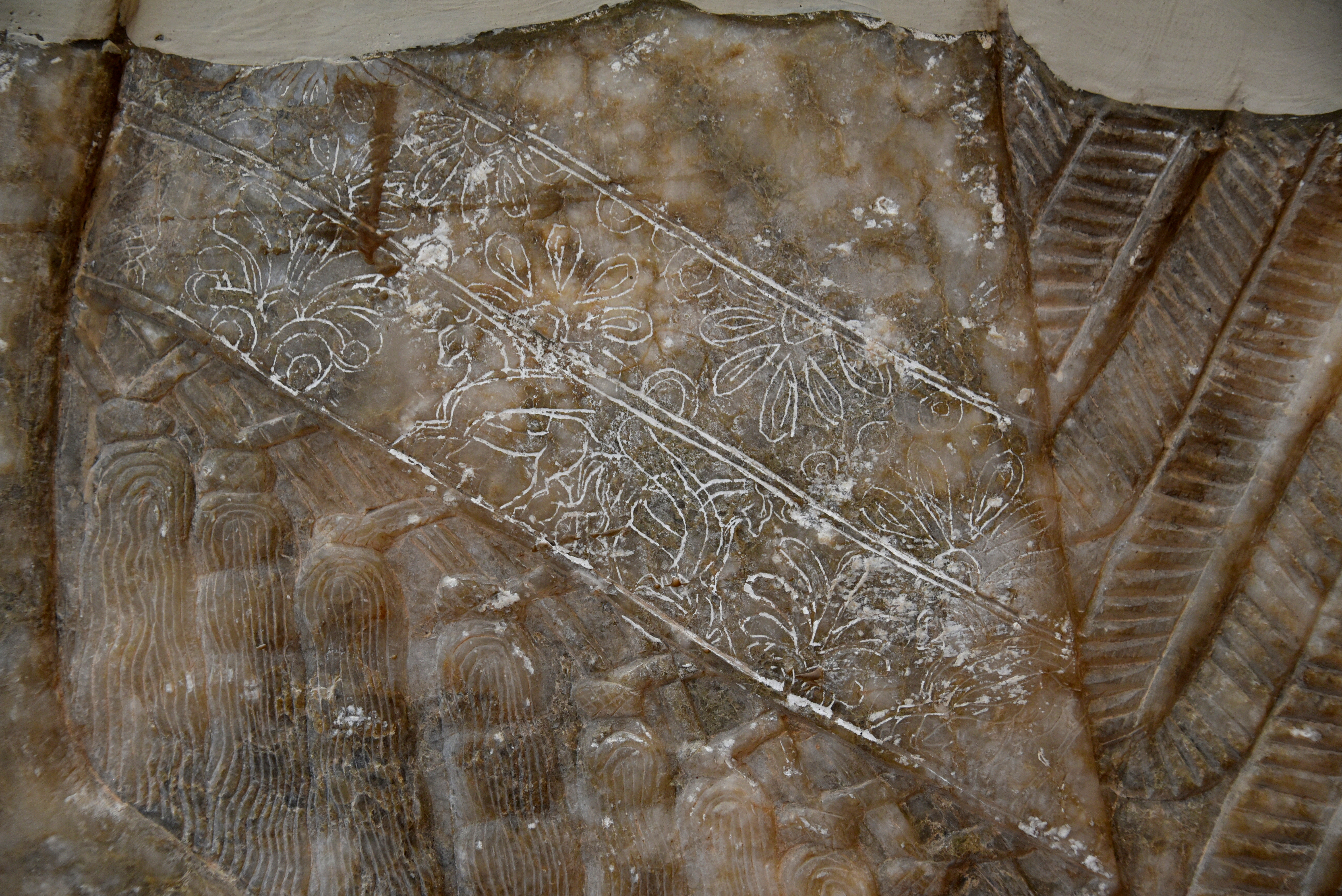 A zoomed-in image of the embroidered dress of a standing male Apkallu, depicting a pair of 4-legged winged animals in addition to the motif of the sacred tree (palm tree). From the North-West Palace at Nimrud (ancient Kalhu), Northern Mesopotamia, Iraq. Neo-Assyrian Period, reign of Ashurnasirpal II, 883-859 BCE. Ancient Orient Museum, Istanbul.